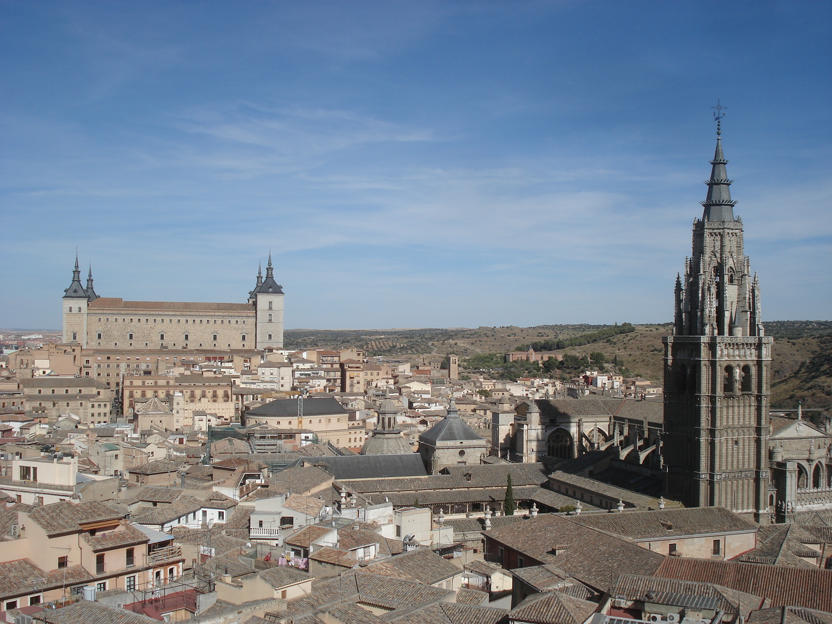 View of Alcazar & Cathedral Tower from Iglesius Jesuits Church